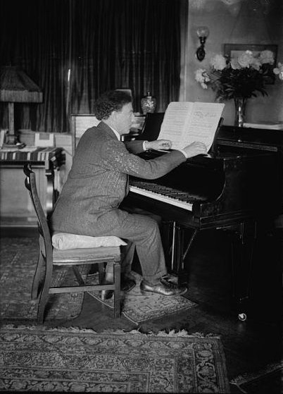 Josef Lhévinne (1874 – 1944), Russian pianist.